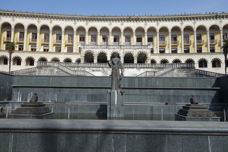 Tskaltubo - Hotel Metallurg